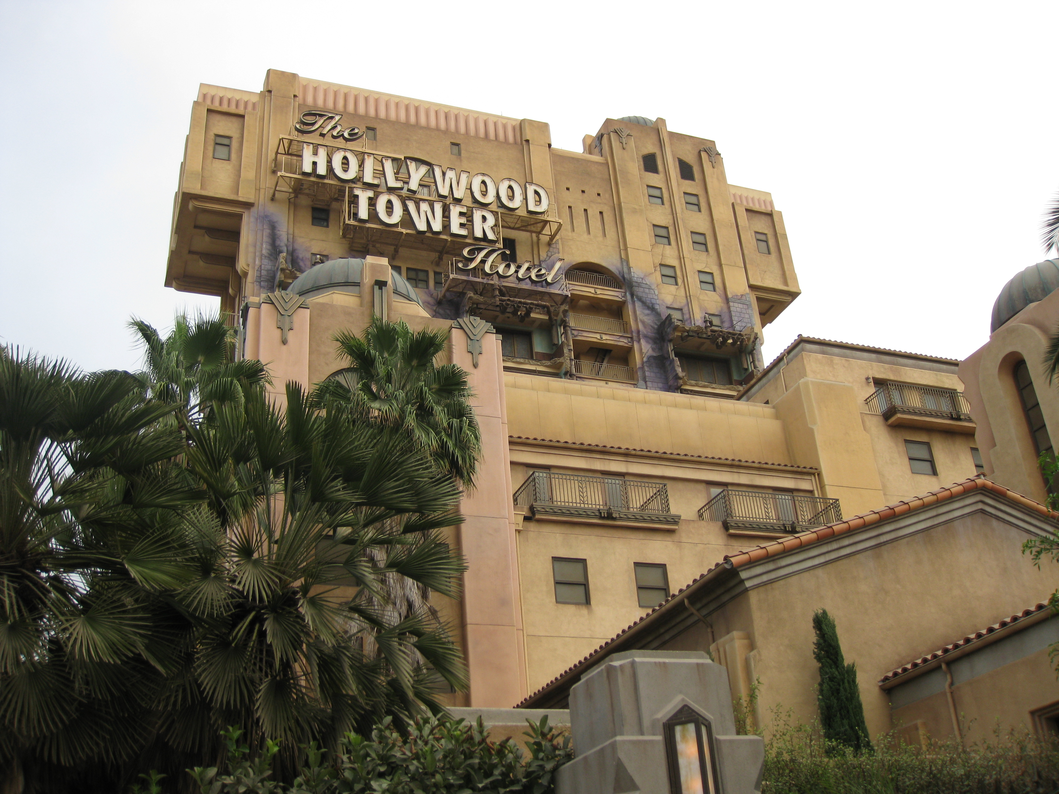 Tower of Terror at Disney's California Adventure, Disneyland Resort